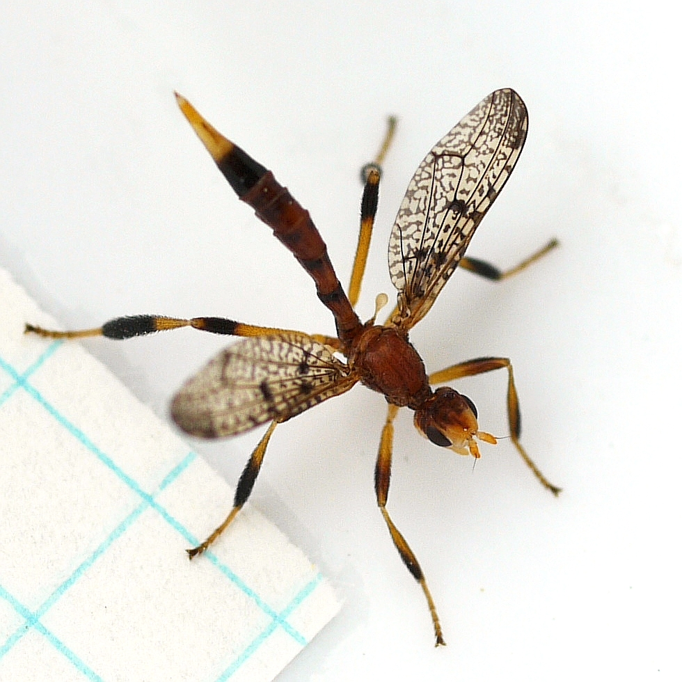 Pyrgotella chagnoni - Large fly is a member of the Family Pyrgotidae. Cross Plains, WI, USA